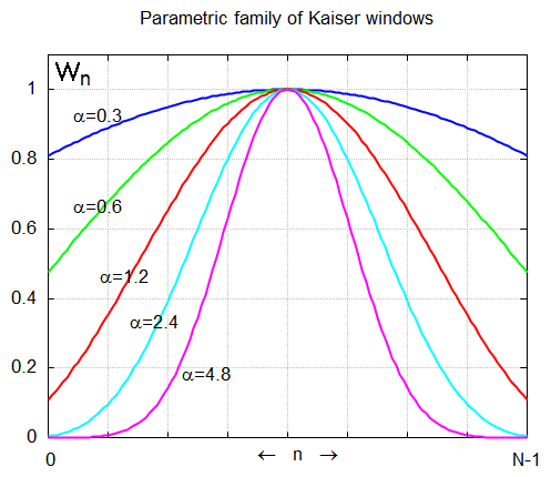 Kaiser Window Function for different alpha values.